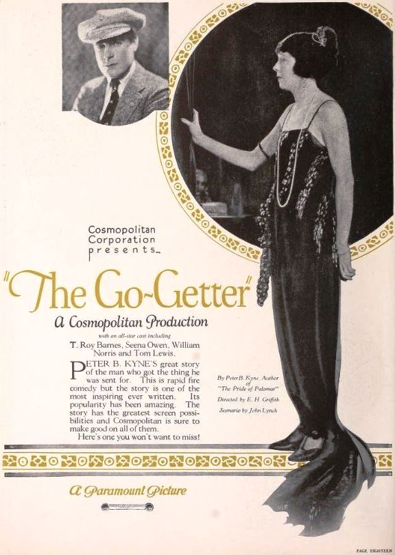 Advertisement for the American comedy film The Go-Getter (1923), page 18 of the insert for upcoming Paramount film releases, from the collection of loose pages from the 1923 Exhibitors Trade Review.